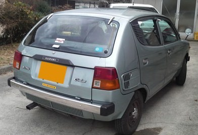 A Suzuki Fronte 7s